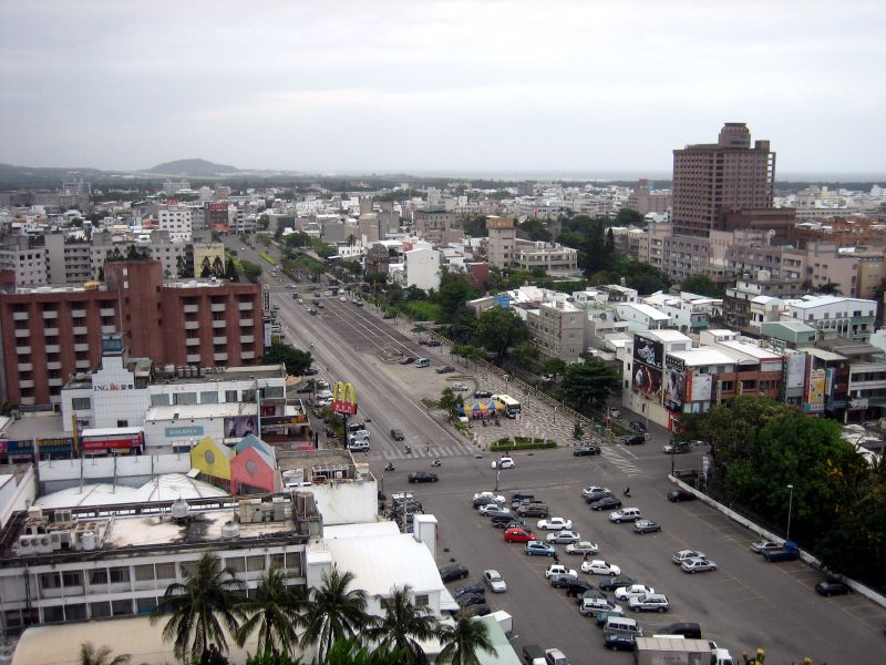 View of Taitung City from Carp Hill.